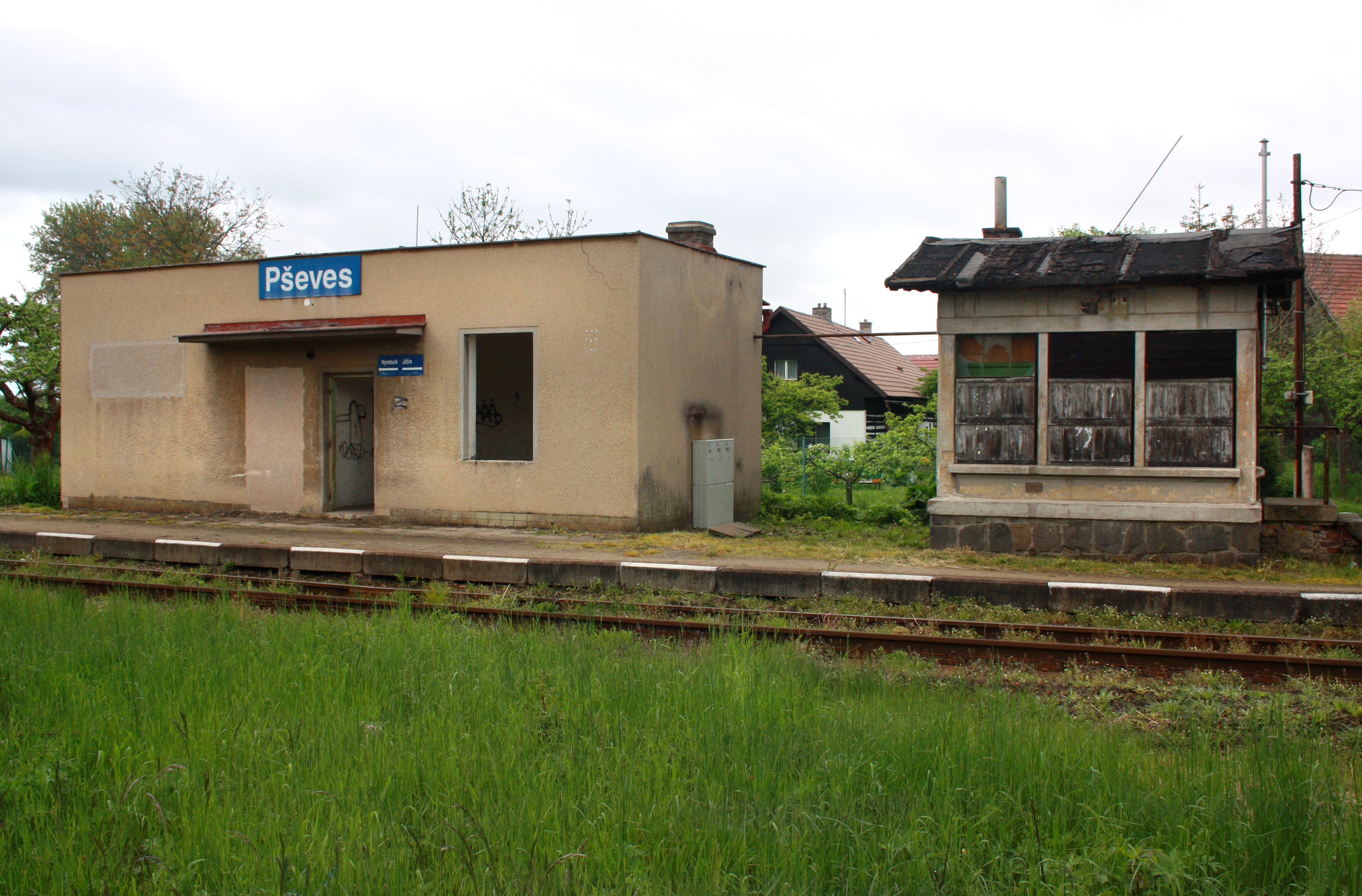 Railway stop in Pševes, part of Kopidlno, Czech Republic